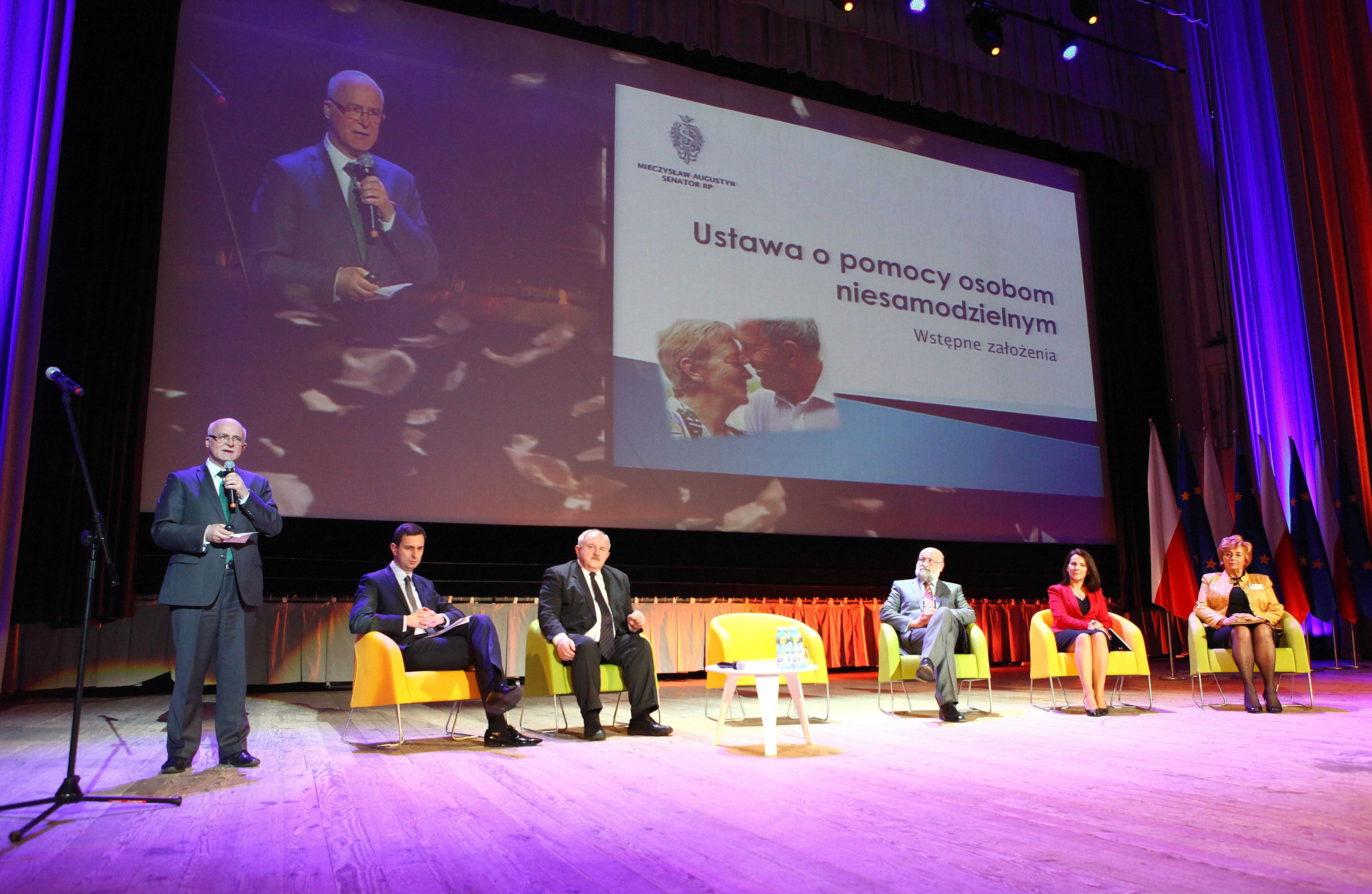 Senator Mieczysław Augustyn at the 1st Congress of the Universities of the Third Age in Warsaw.